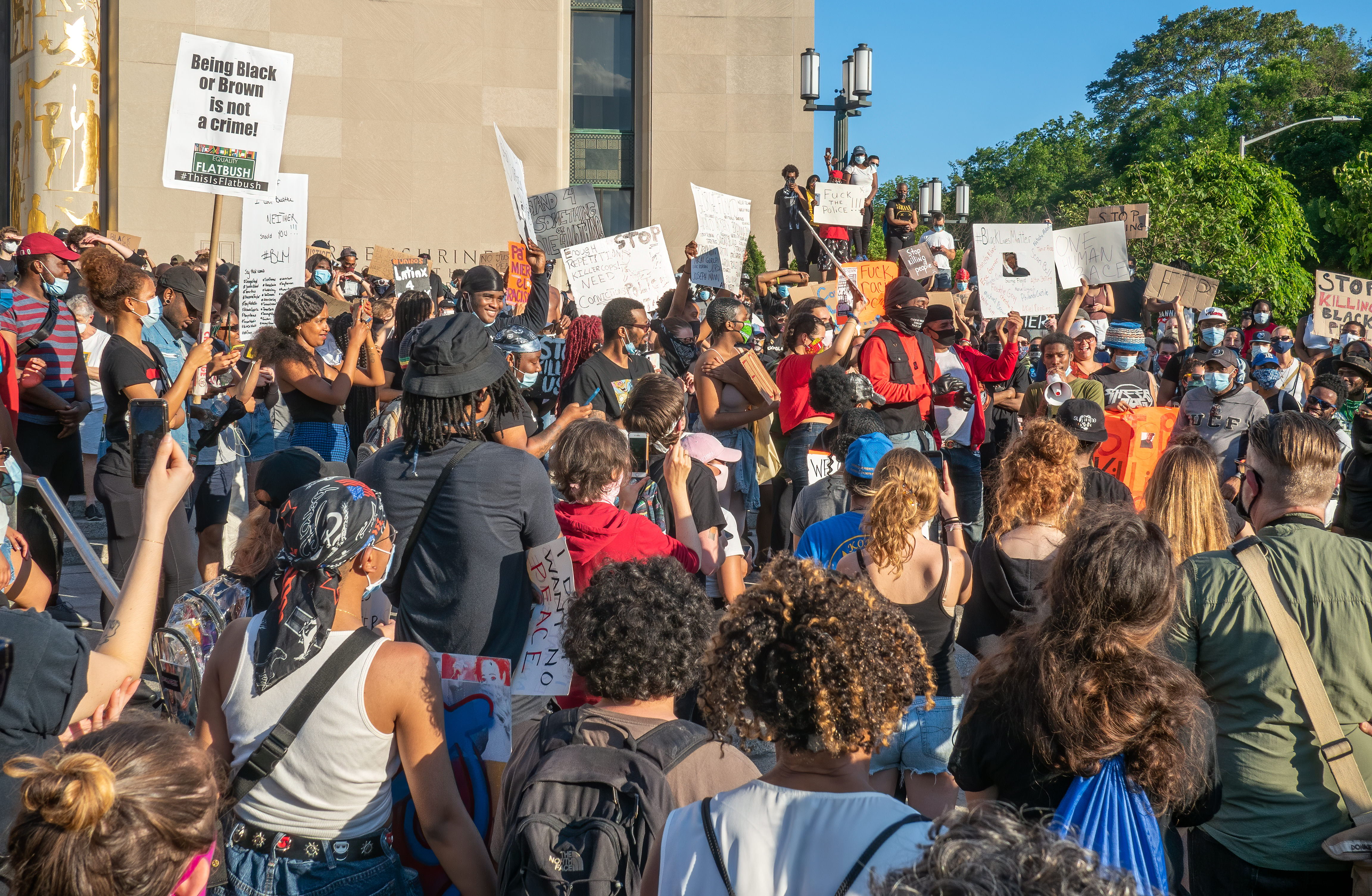 Rally in Grand Army Plaza after the death of George Floyd